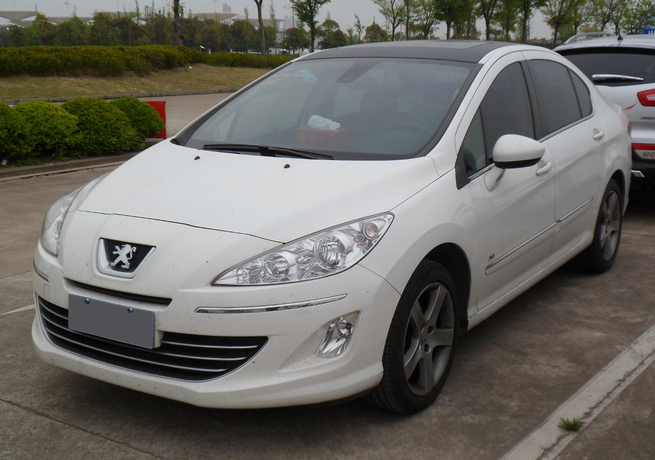 Peugeot 408 photographed in Anting, Shanghai municipality, China.